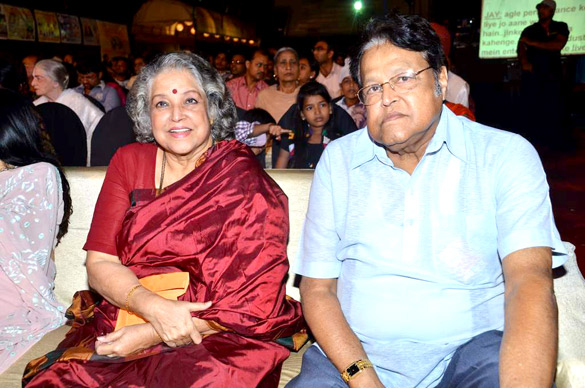 Image of Shubha Khote and Viju Khote